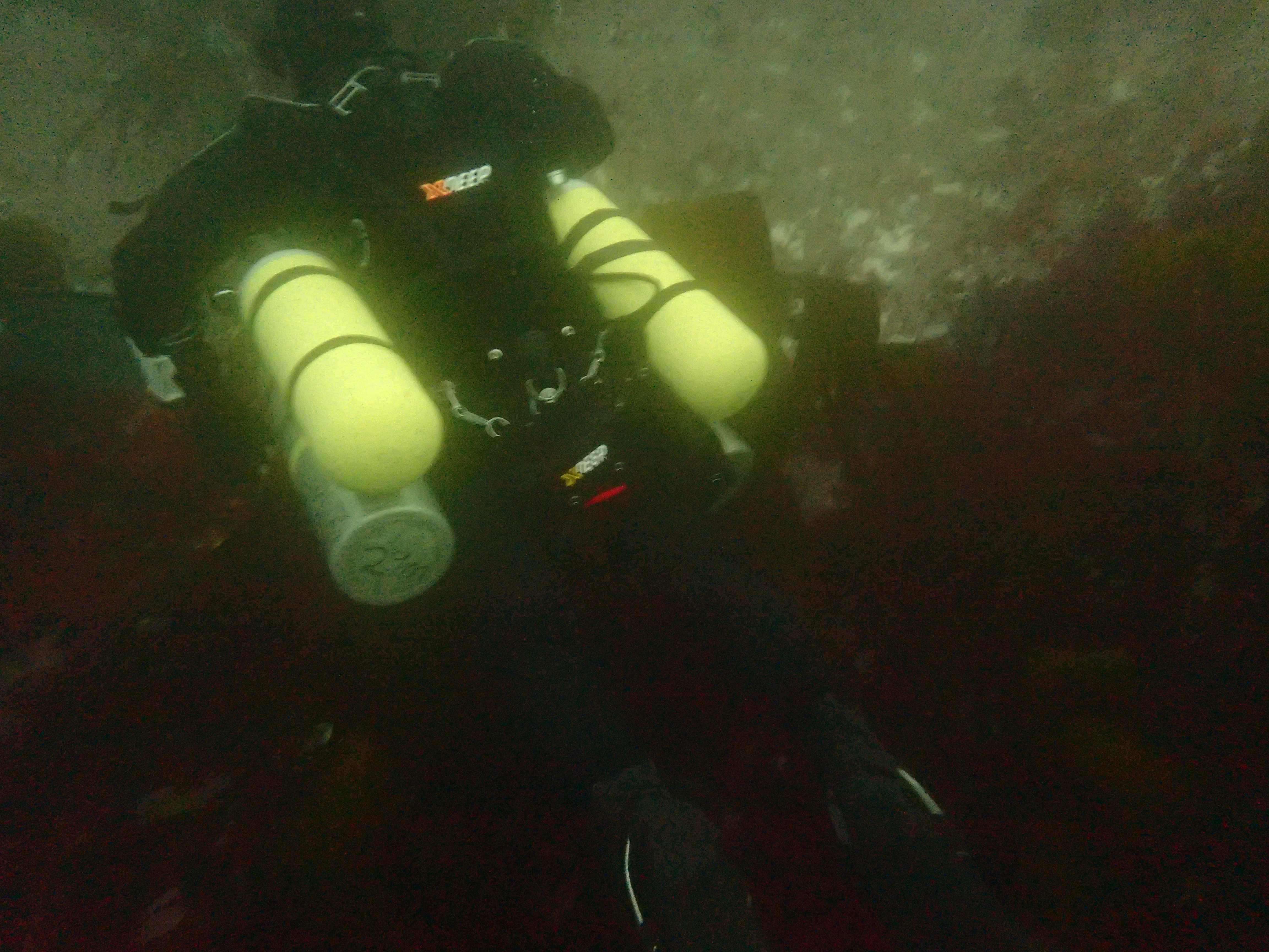 Dry suit tech dive with sidemount 2x12l trimix and 2xAl 80 deco gas